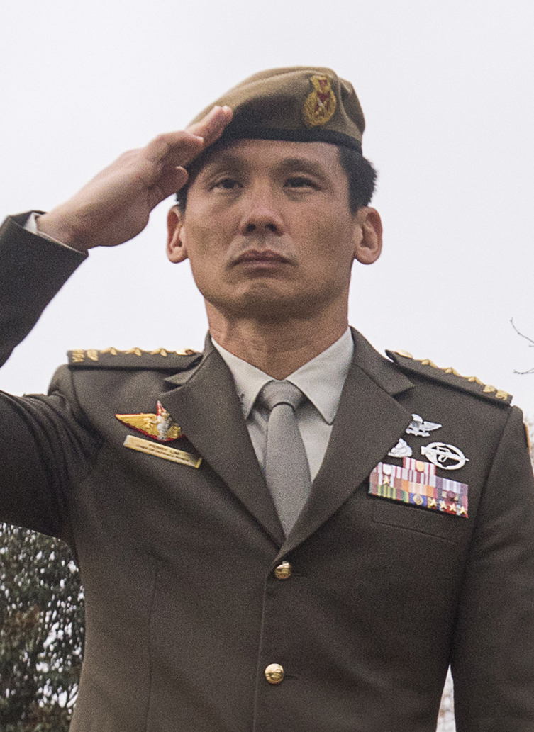 Singapore Army Lieutenant General Perry Lim Cheng Yeow, the Singapore Chief of Defence Force 中文（新加坡）: 新加坡三军总长林清耀中将